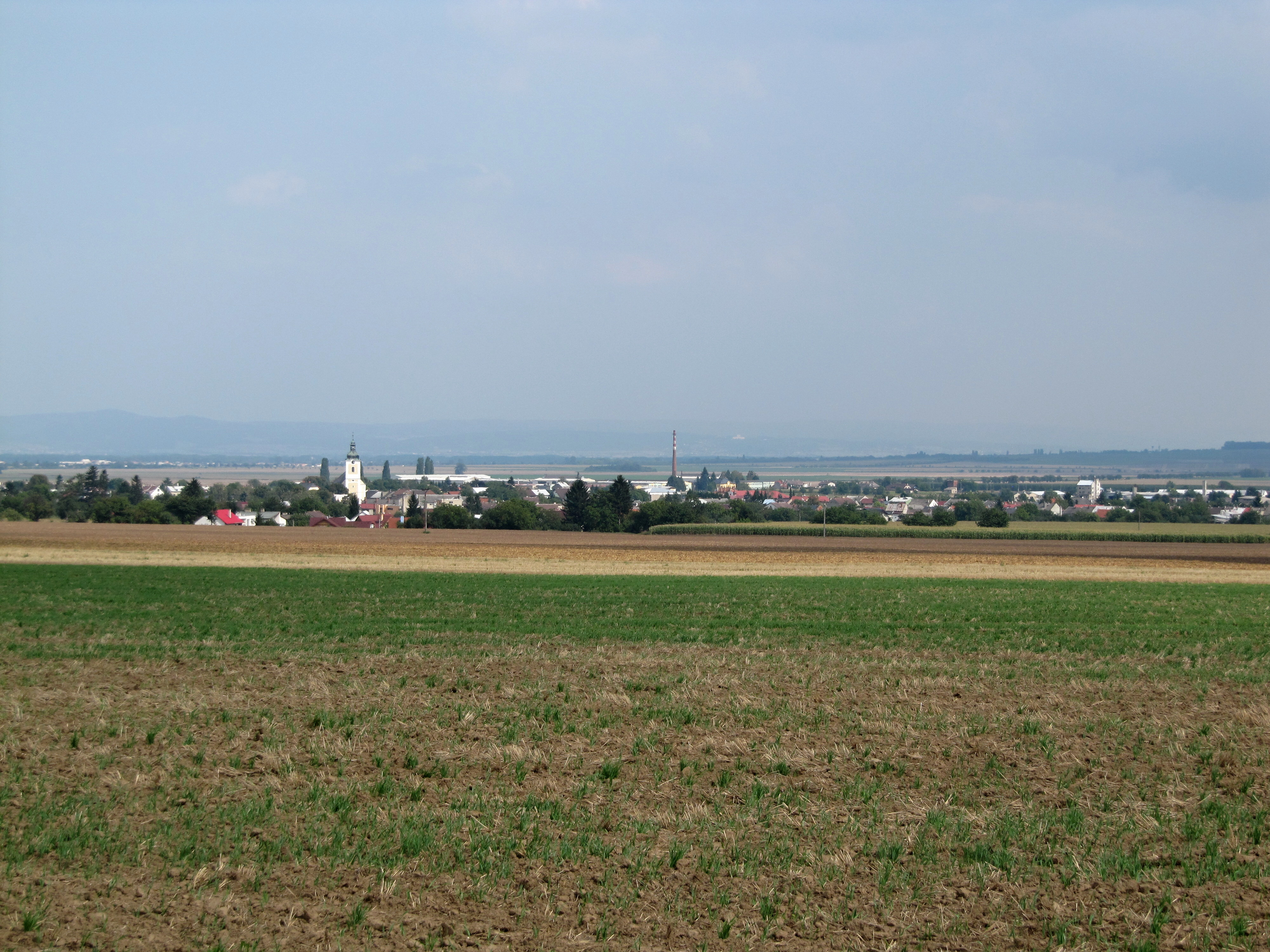 Senice na Hané in Olomouc District, Czech Republic. General view.